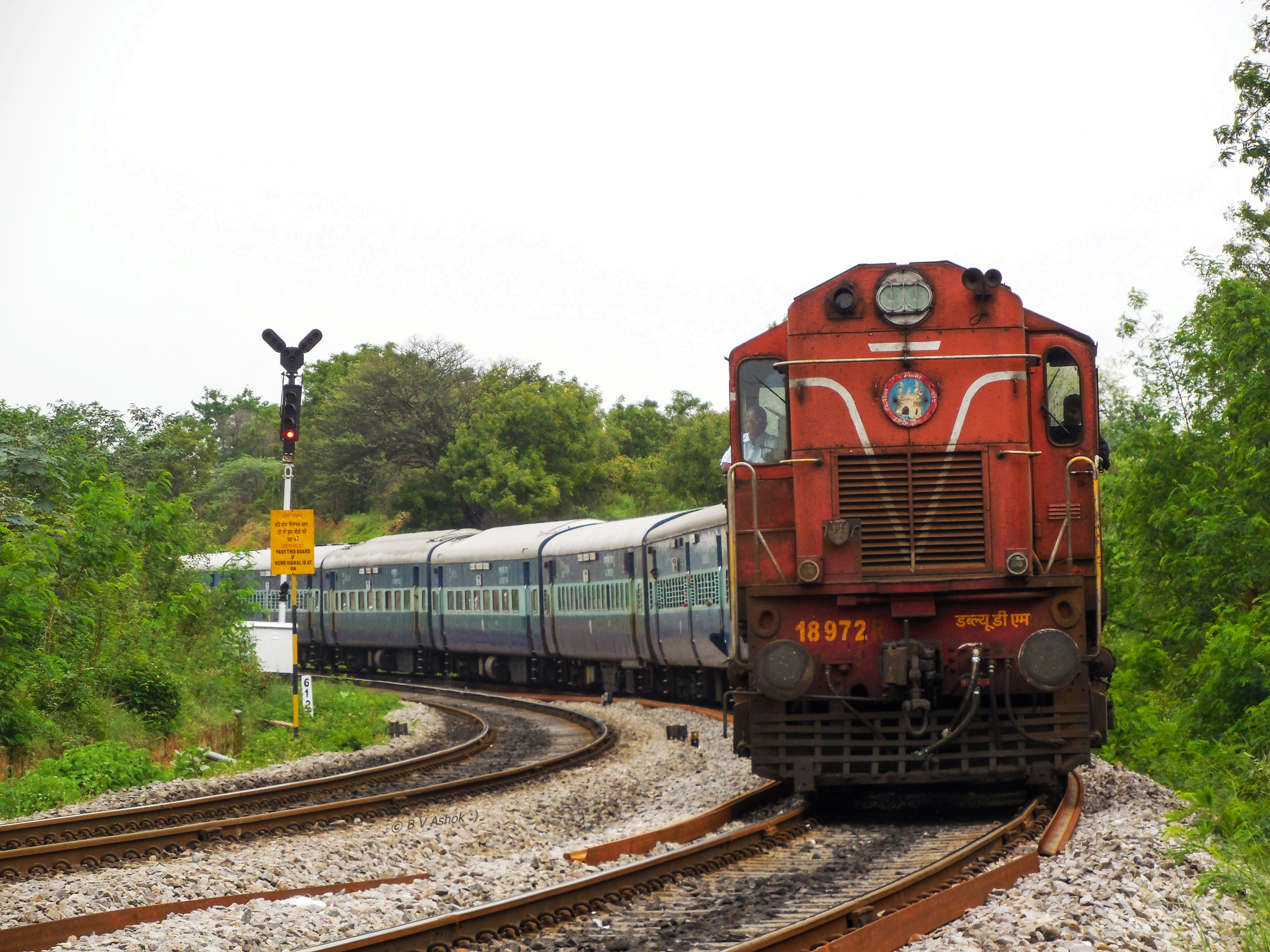 MLY WDM-3A 18972 leads the twin charge for 17063 Manmad - Secunderabad Ajanta Express...